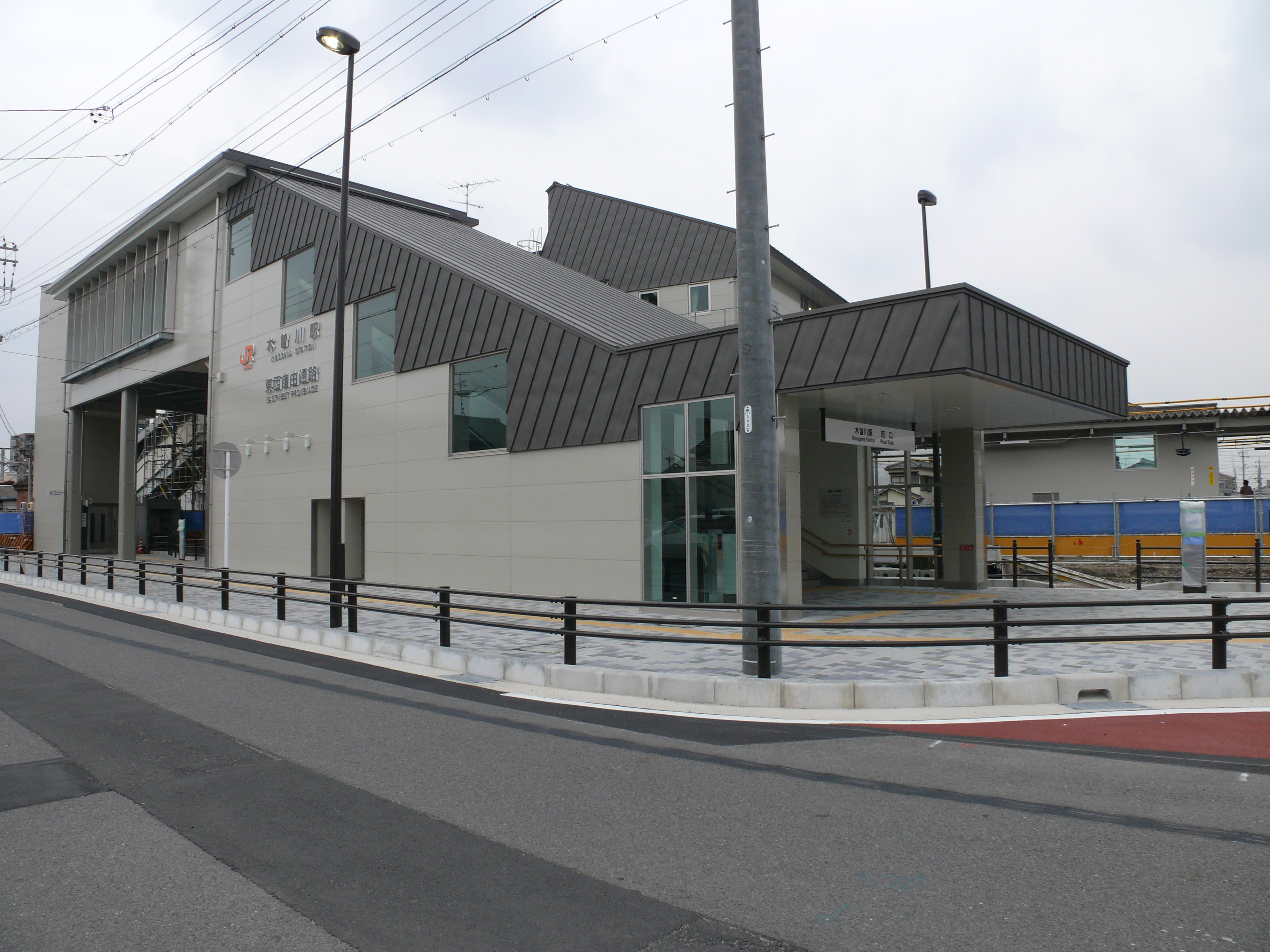 JR Central Kisogawa Station